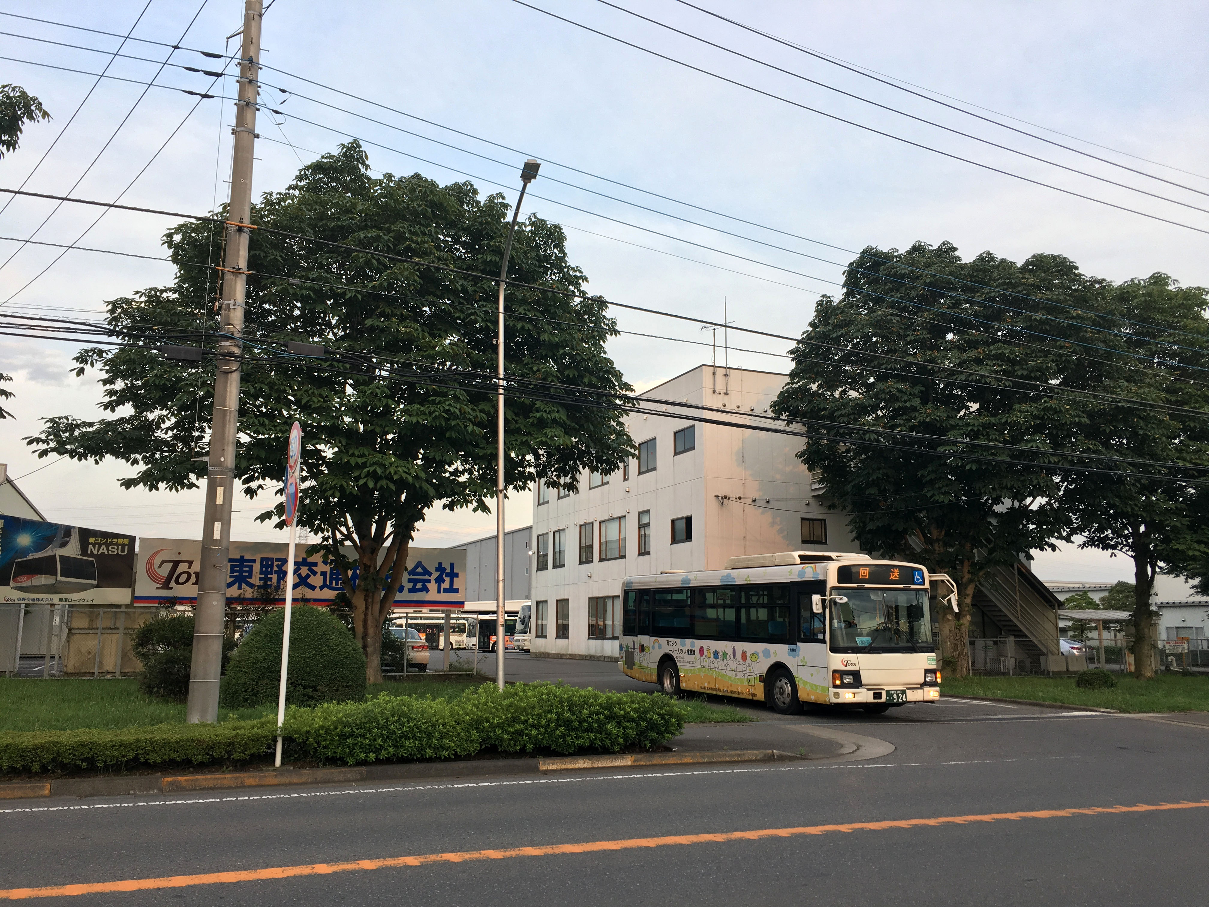 Toya Kotsu (Japanese bus company) Headquarters (Utsunomiya, Japan)